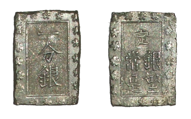 Kaheishi-1bugin